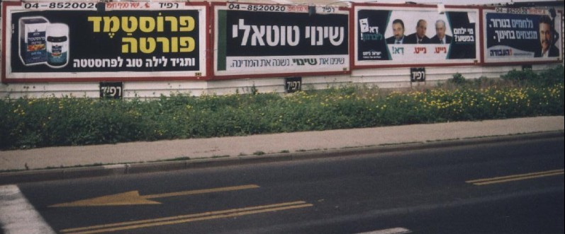 Election banners along HaHistadrut Avenue in eastern Haifa, from right to left: Labour Party, Immigrants party, Liberal party, and Prostate.